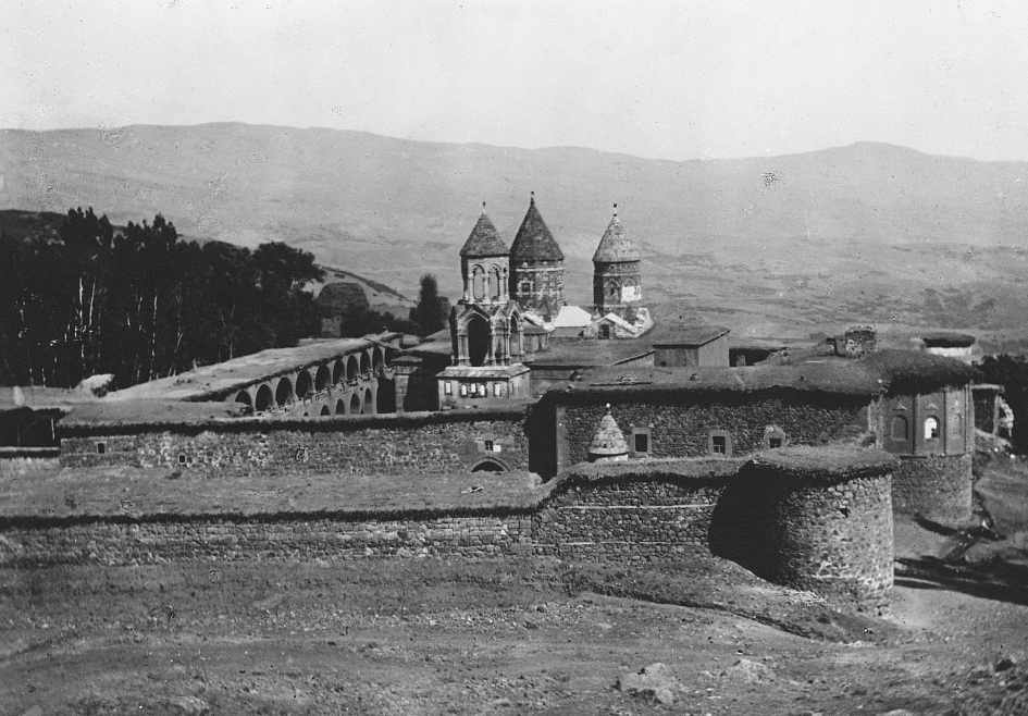 The 4th-19th century Armenian Saint Karapet Monastery in Mush. Taken around 1915-1923, before its destruction.